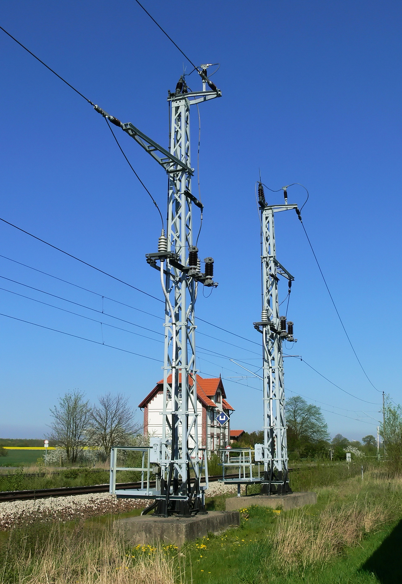 Catenary disconnecting point